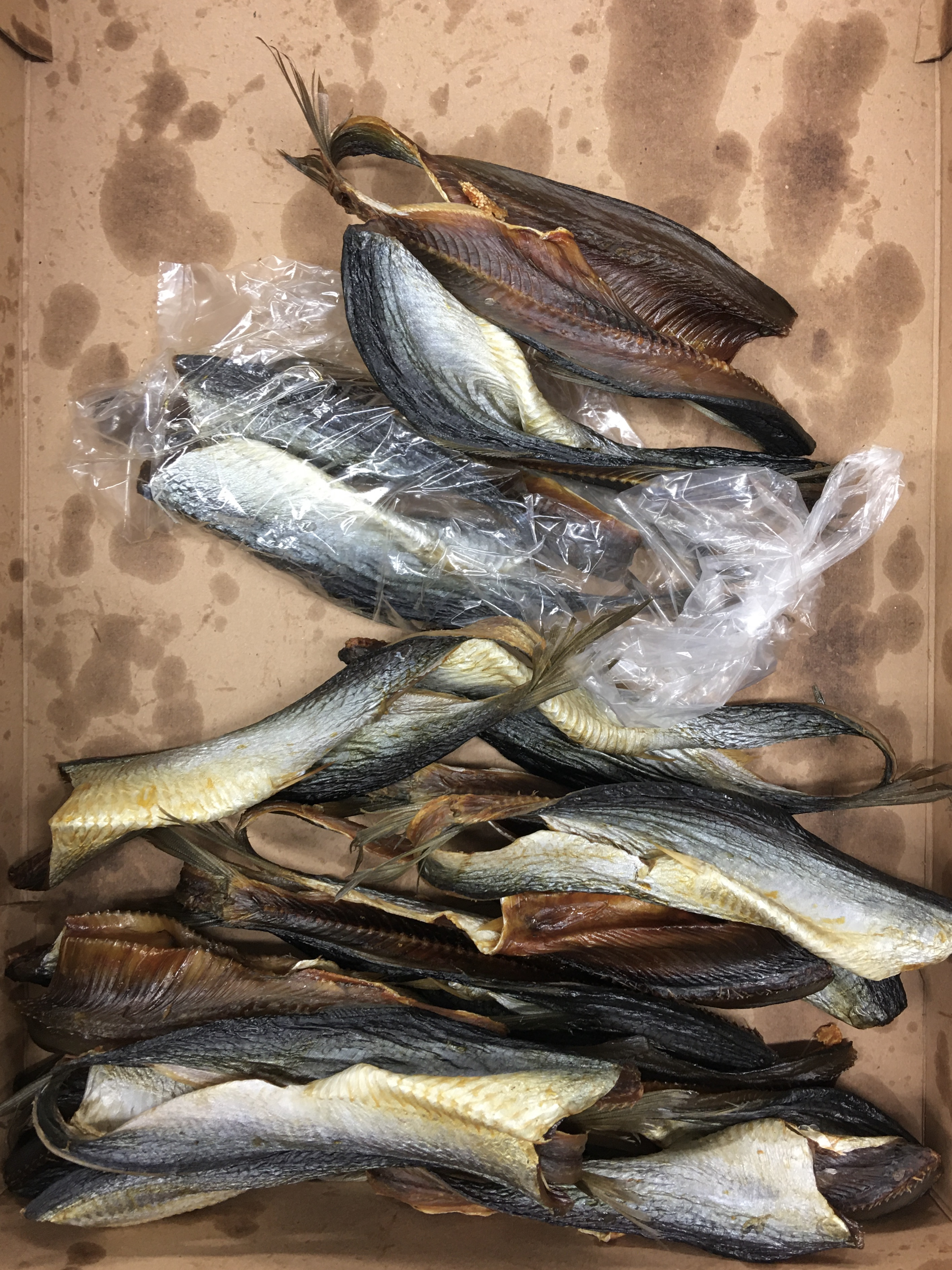 "Lubbesild", a type of smoked dried herring, produced and sold locally in Bømlo